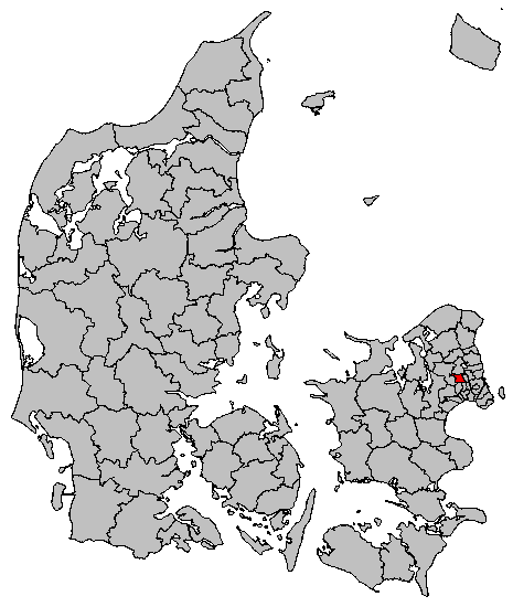 Location map of Danish municipality Ballerup